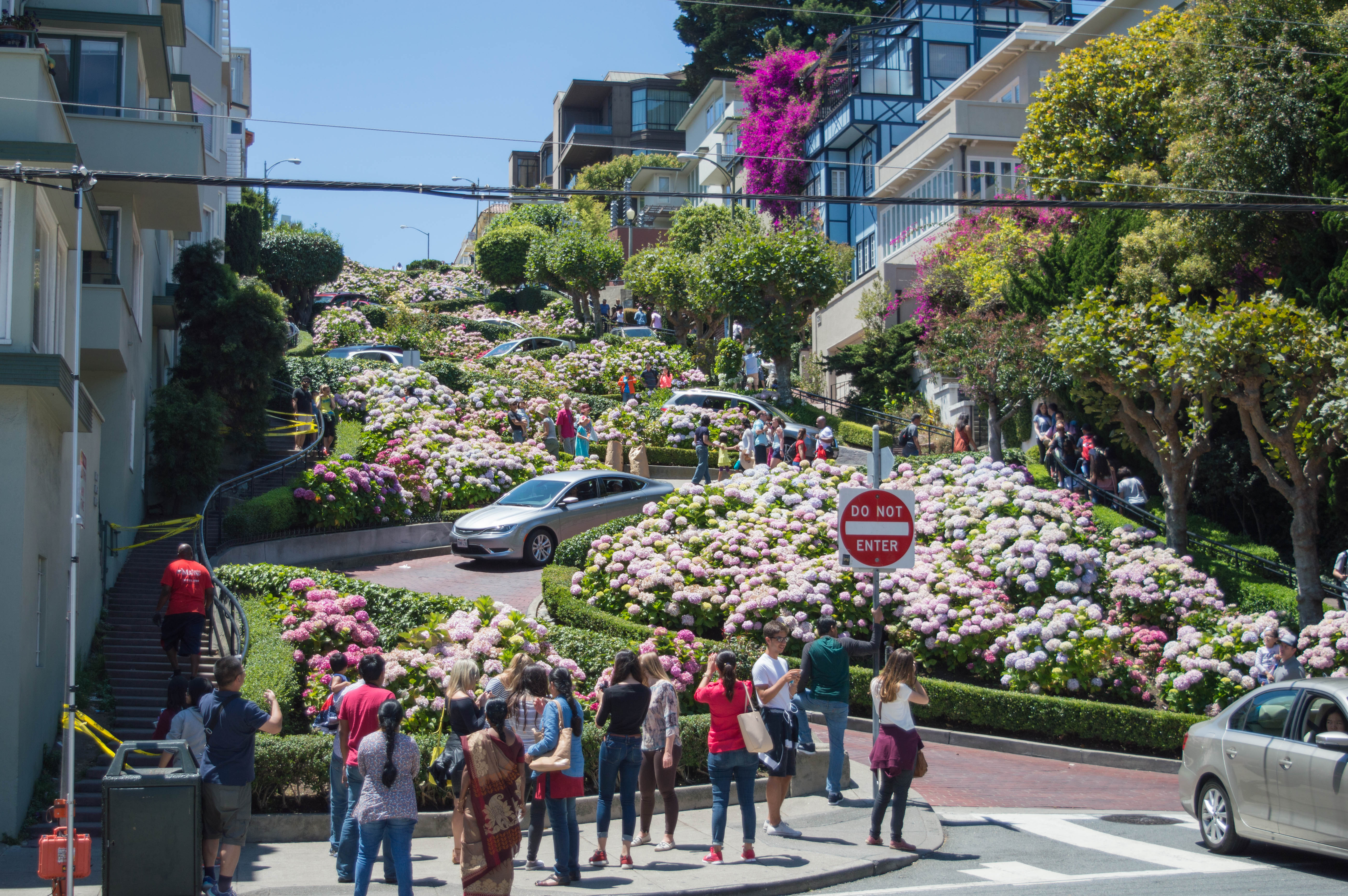 Lombard Street in the city of San Francisco.